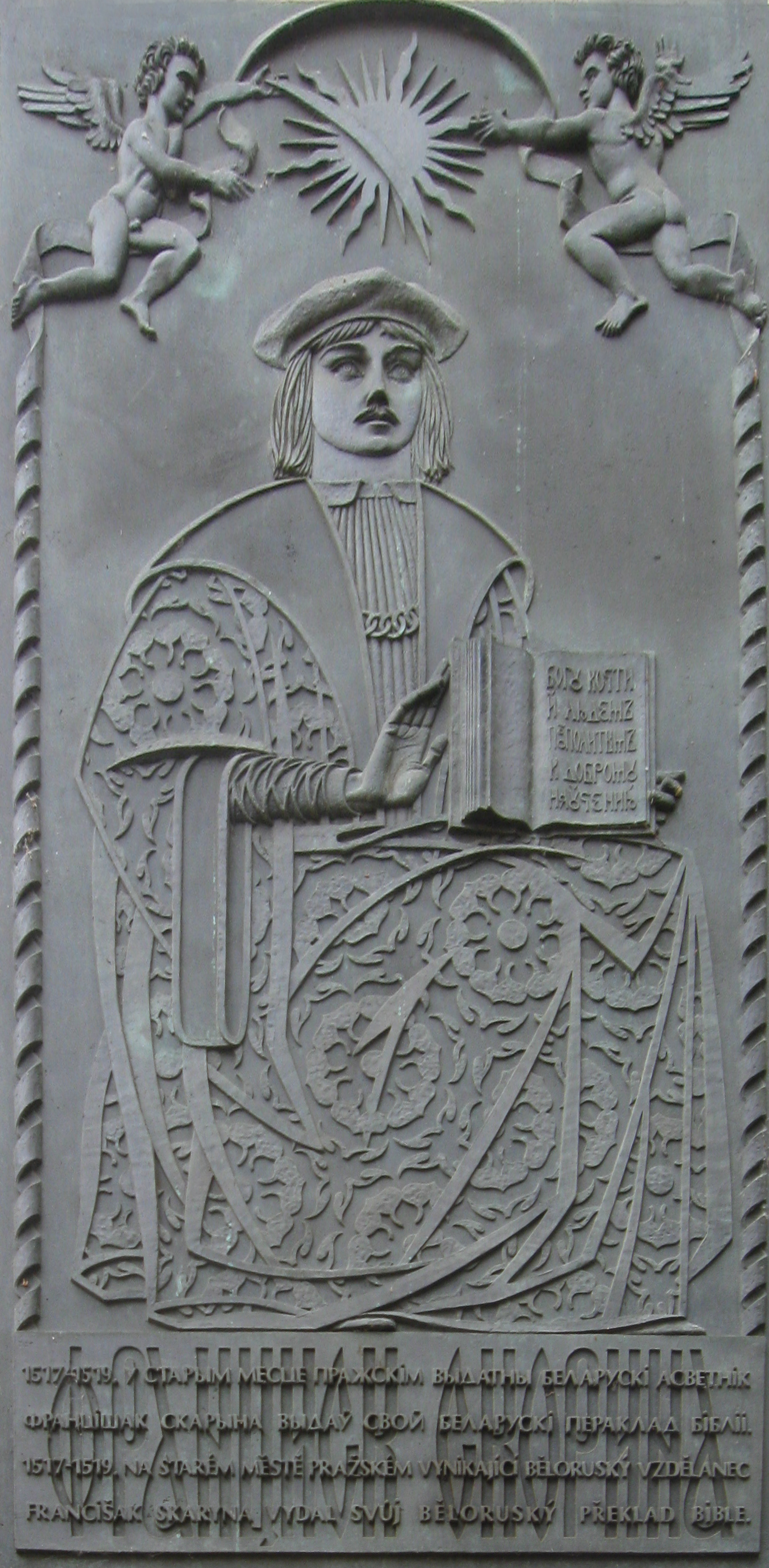 Klementinum, Prague